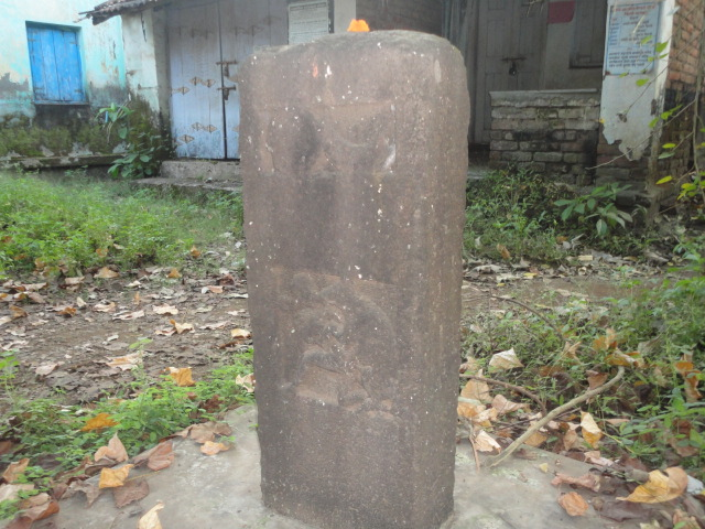 अक्षी येथील राजा केसिदेवराय याचा अक्षी शिलालेख. मराठीतील प्राचीन कोरीव लेख (शके ९३४)